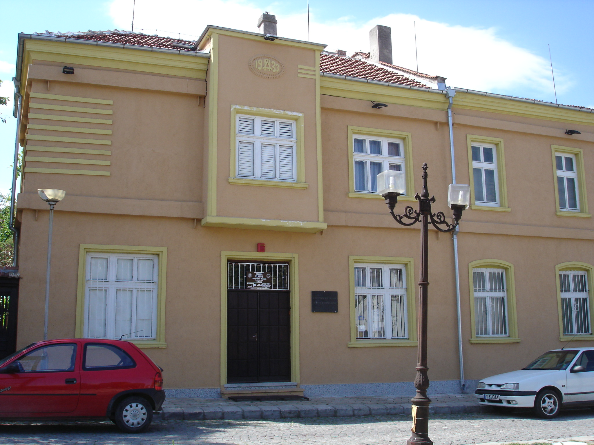 Museum of Ethnography in Elhovo, Bulgaria